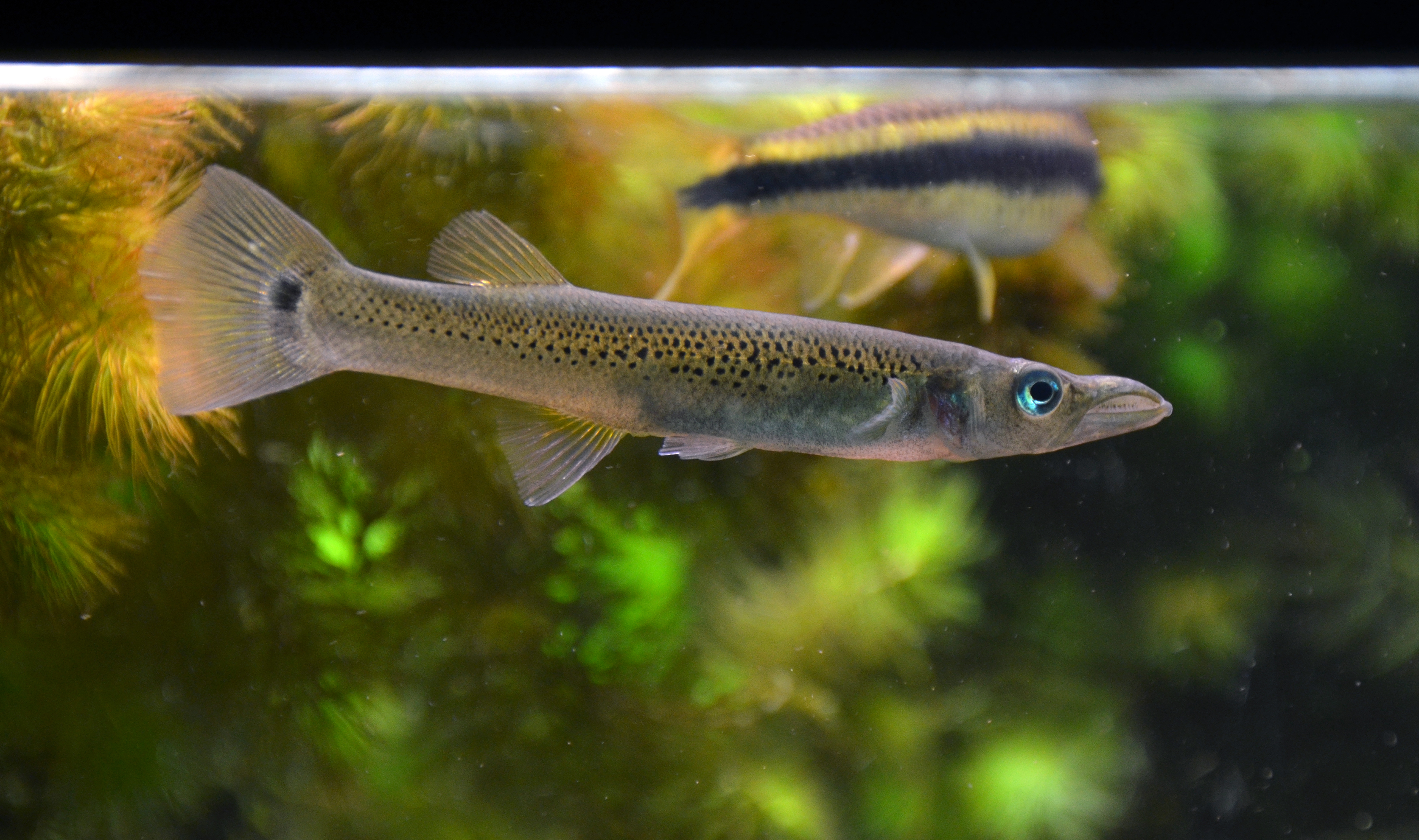 Top minnow (Belonesox belizanus). Female specimen. Aquarium tropical du Palais de la Porte Dorée, in Paris.